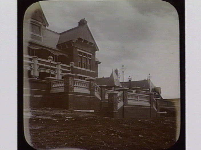 Front steps of Sunbury Lunatic Asylum aka Caloola